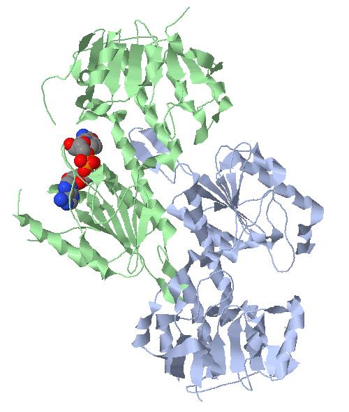 This is an image of the Clathrin protein from Bos taurus. It is bound to NAD. The image was generated using RasMol.